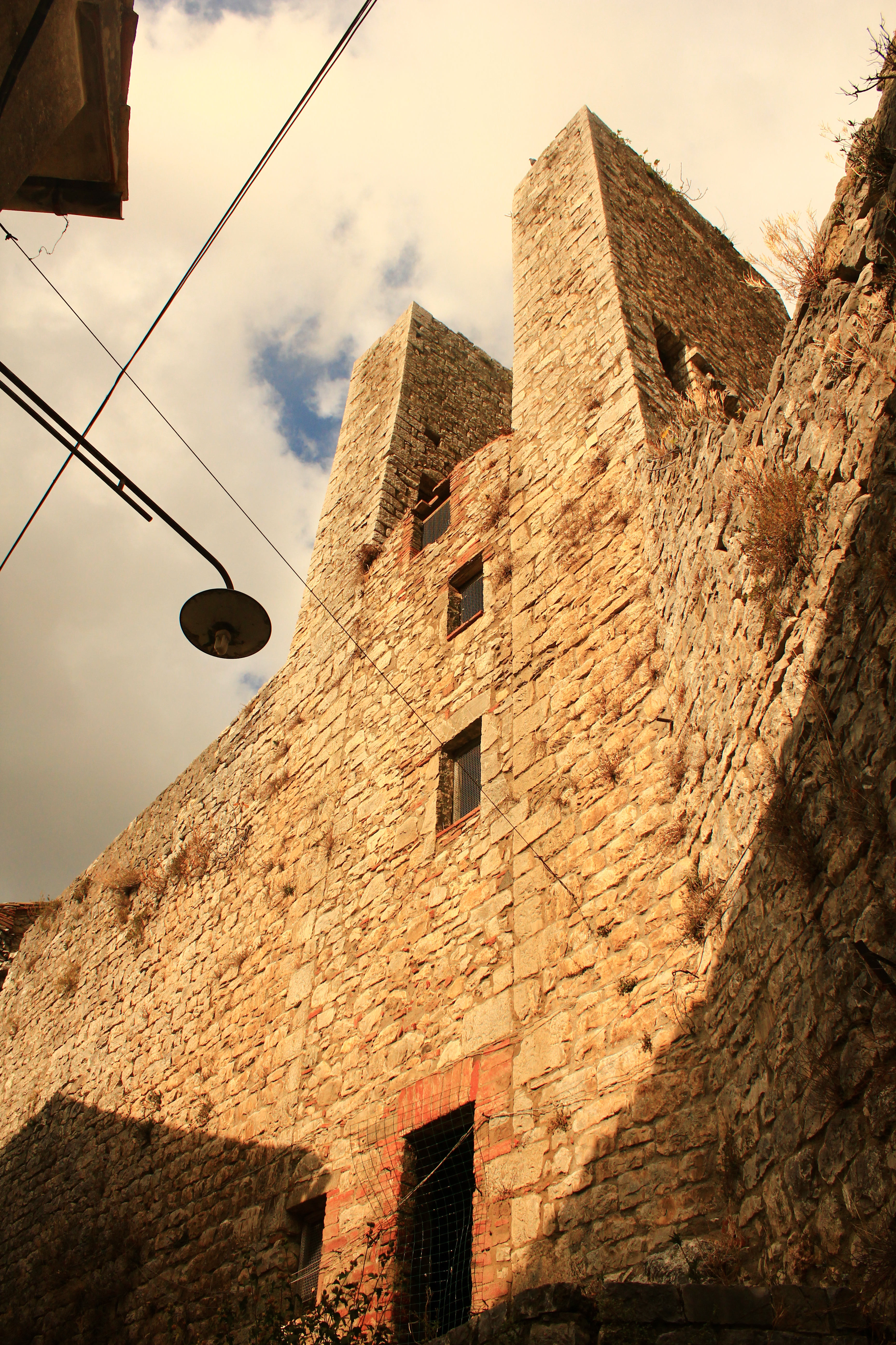 Towers of Roccalbegna old walls